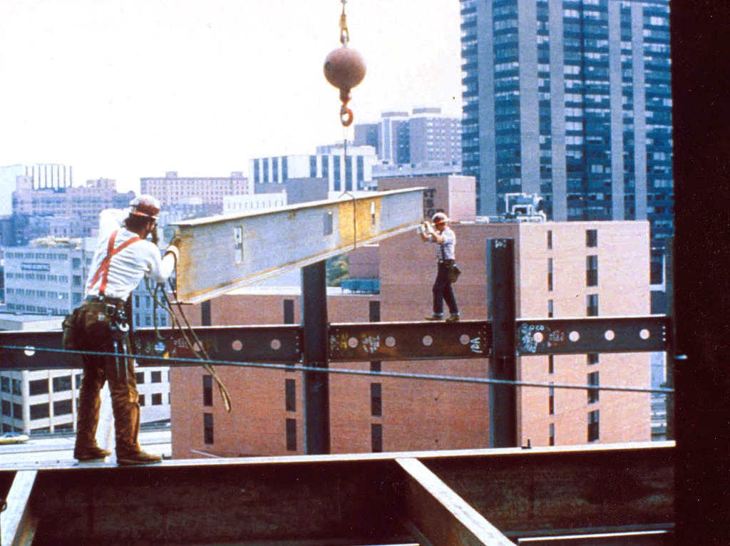 Construction workers at a considerable height without appropriate fall protection equipment.